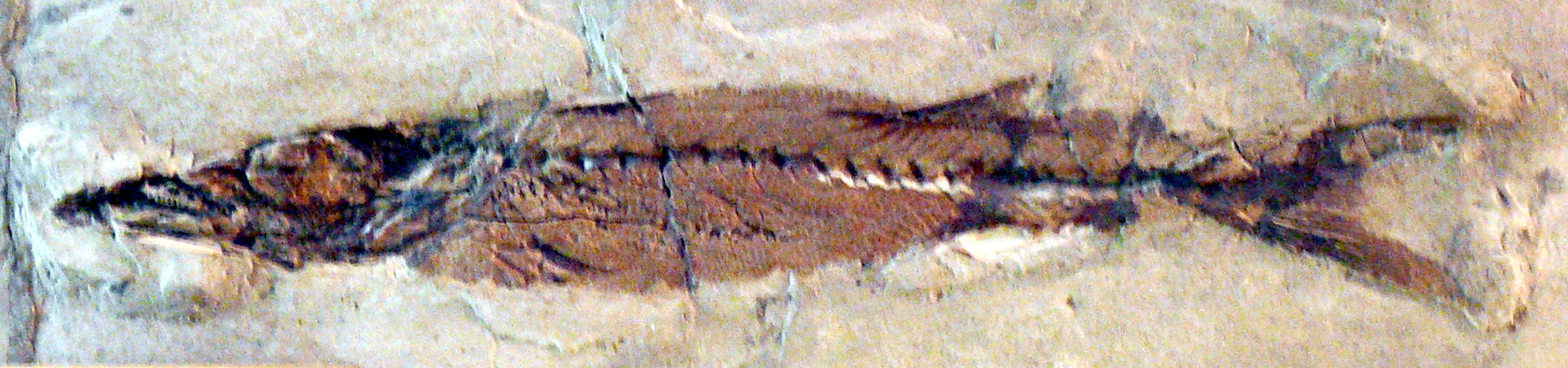 Sphyraena bolcensis from the Eocene, Monte Bolca, Italy